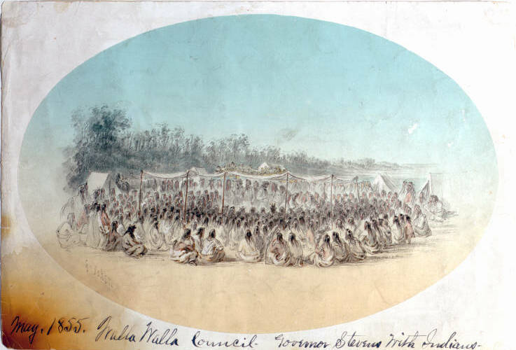 A scene at the Walla Walla Treaty Council. Isaac Stevens is standing under a canvas shelter at the center with other Euro-Americans around him. Several Indians are standing under the shelter and some of them appear to be signing the treaty. Many other Indians are seated on the ground around the shelter.